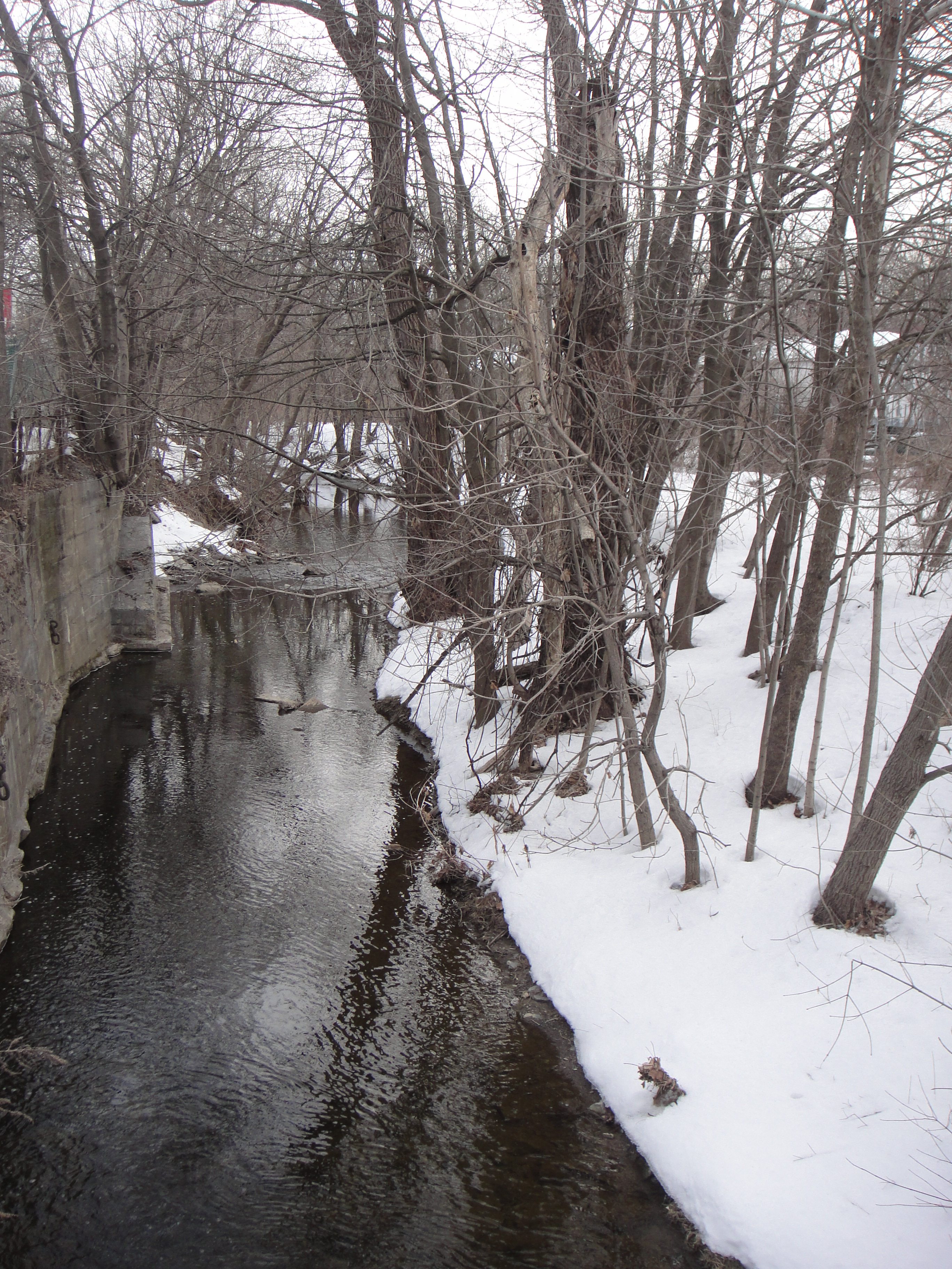 Coplay Creek, Lehigh County